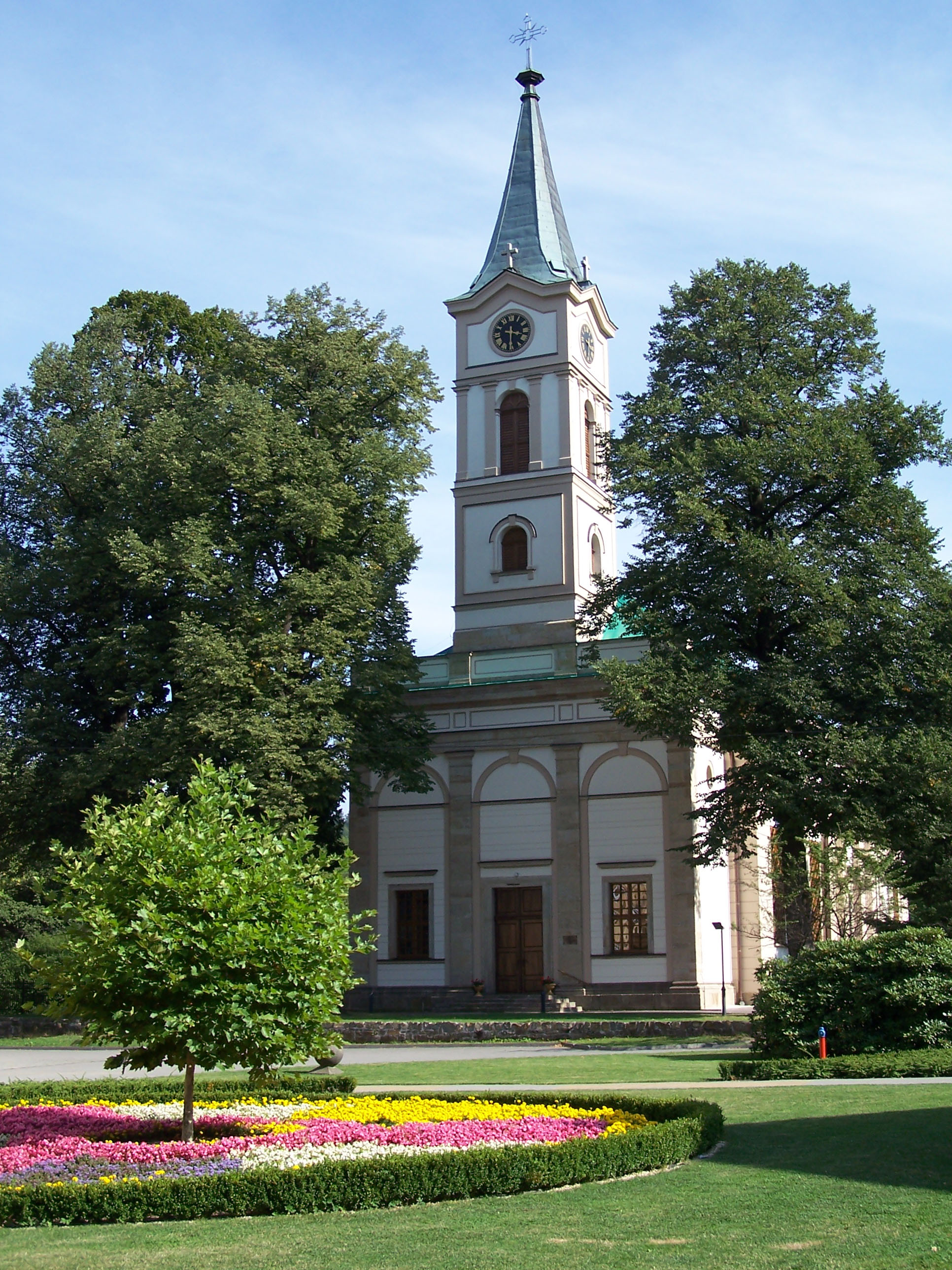 Lutheran church in Wisła, Poland